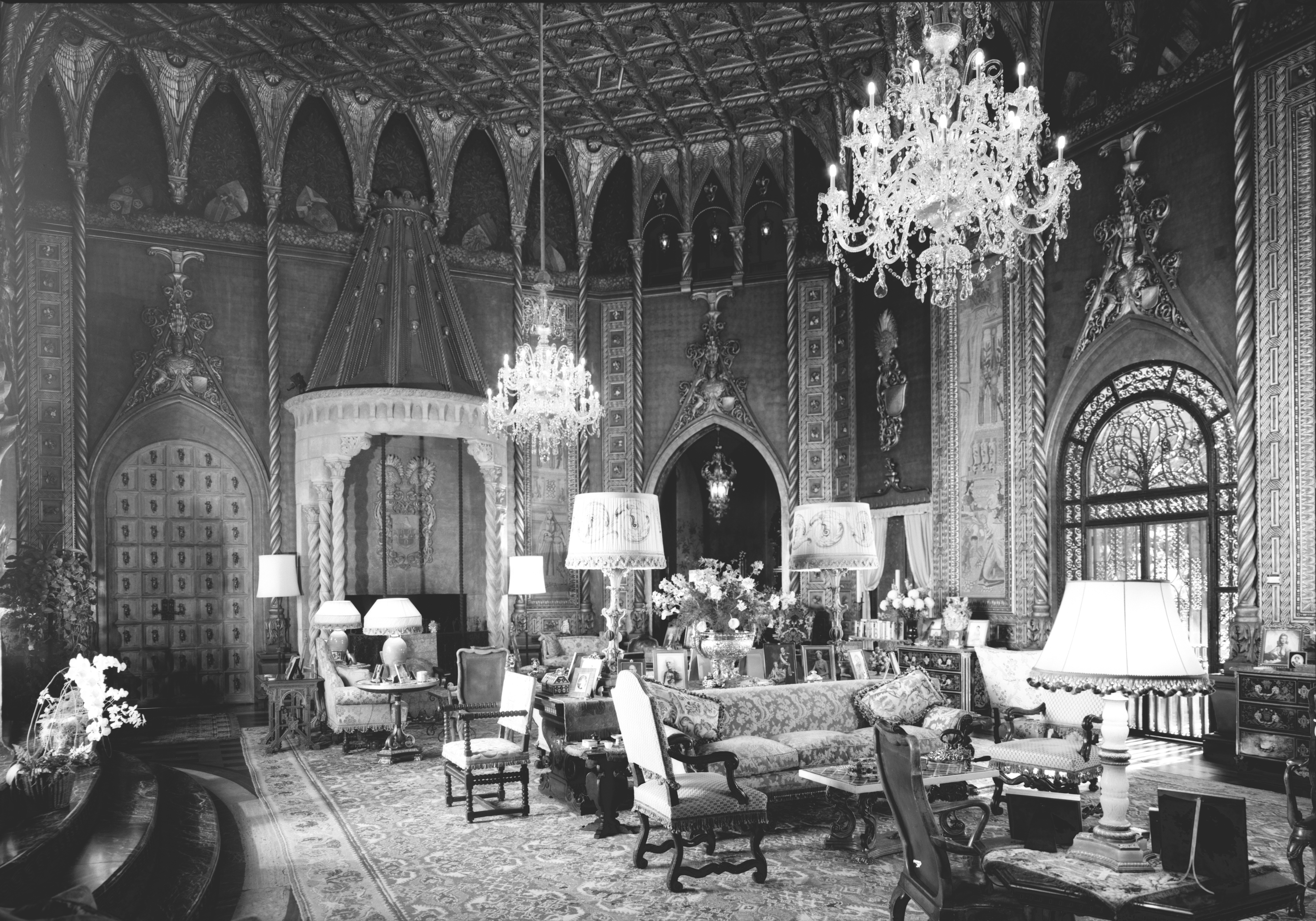 Mar-A-Lago — Interior; living Room looking southwest. Palm Beach Florida. Image courtesy of federal HABS—Historic American Buildings Survey in Florida. Photograph taken in 1967. This image is cropped and contrast-enhanced from the Library of Congress online collection (image #21).